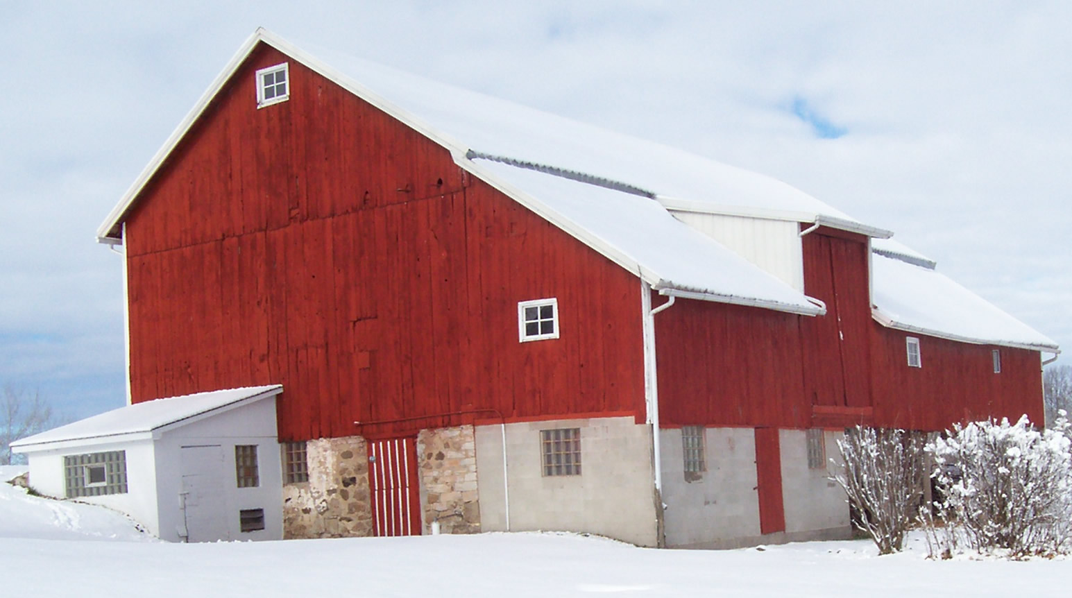 My barn in rural Calumet County, Wisconsin, USA.